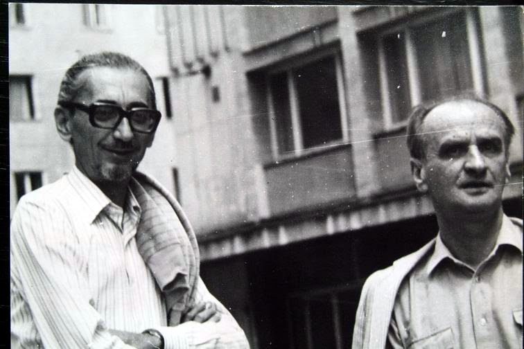 Mihiz and Pekic in Sophia, 1982